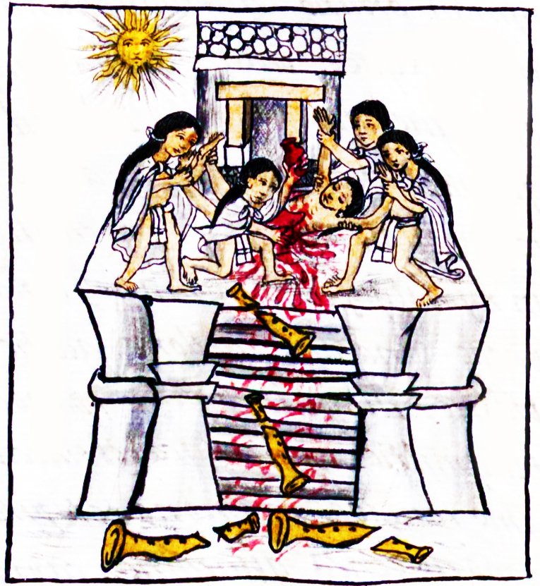 Aztec Human Sacrifice 03 Florentine Codex, Page I, F, 6th